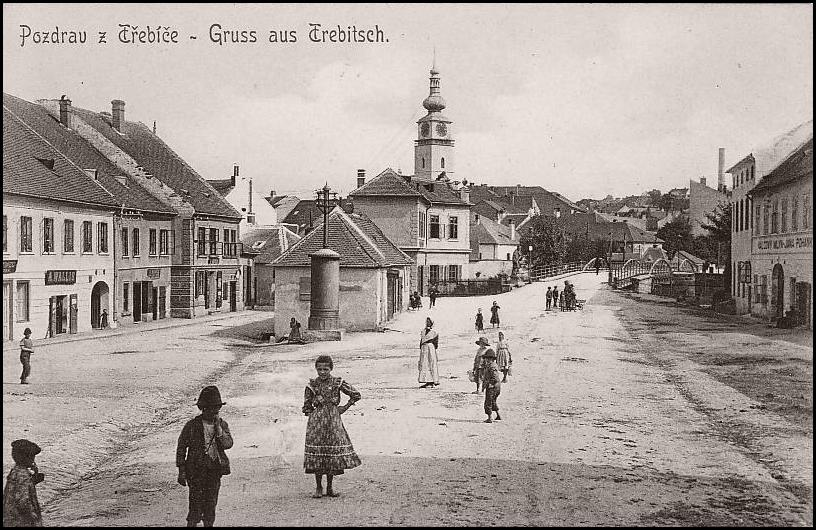 Žerotínovo square in 1907 in Třebíč, Třebíč District.